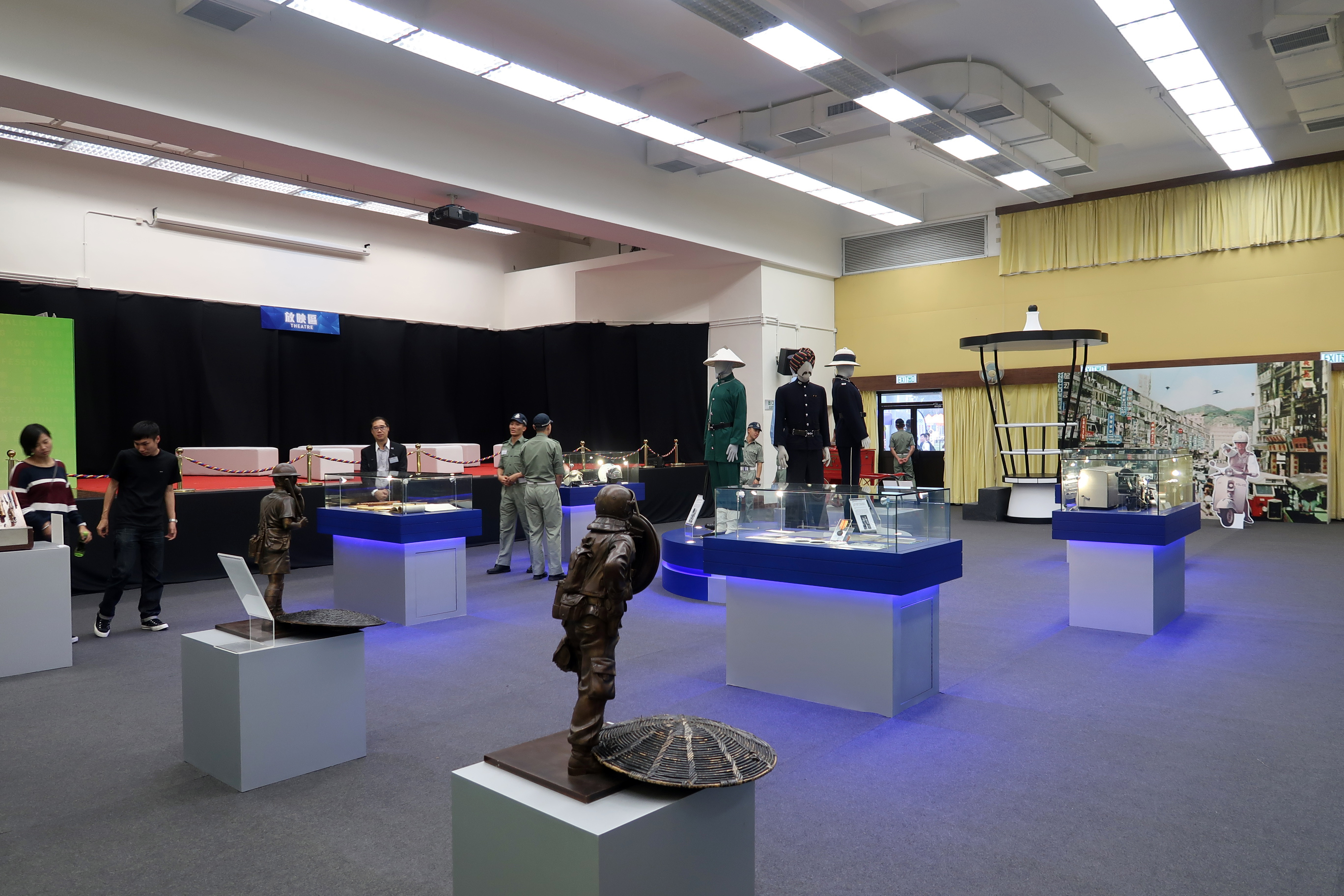 Hong Kong Police College Lower Gym